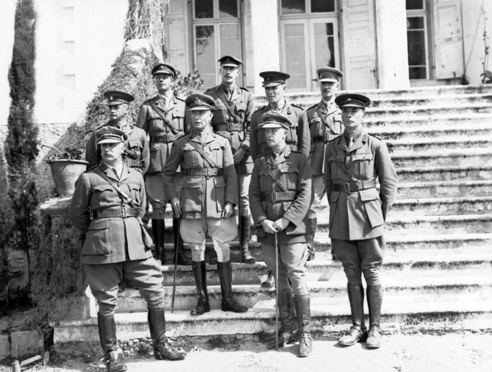 ID Number: B01467 Maker: Hurley, James Francis (Frank) (read more about the photographer at ) Place made: Deiran, Palestine (Now- Rehovot, Israel). Slutzkin house. Rights Info: No known copyright restrictions. This photograph is from the Australian War Memorial's collection Persistent URL: .au/photograph/B01467 Flickr URL: [1]